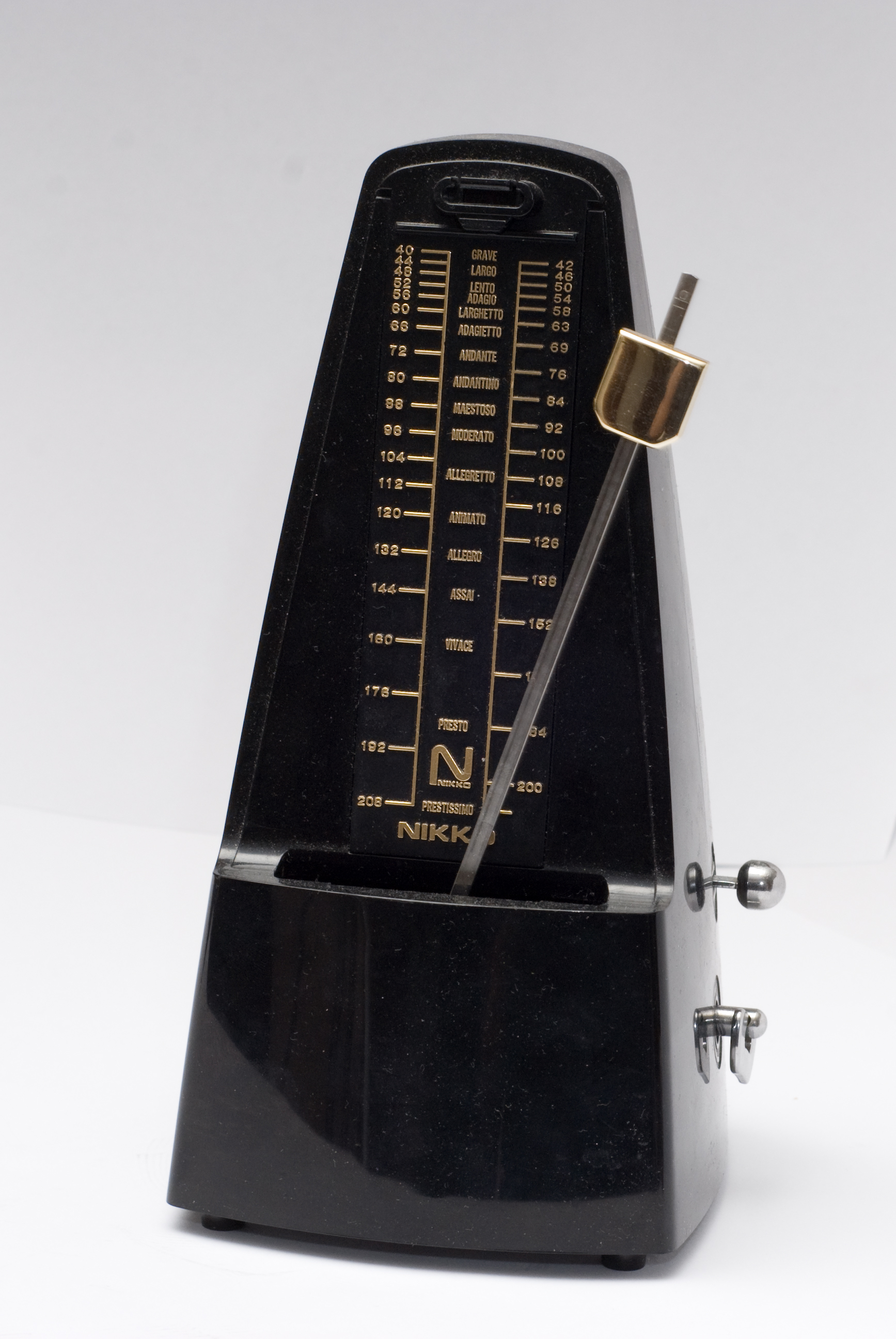 Nikko brand mechanical metronome in motion.